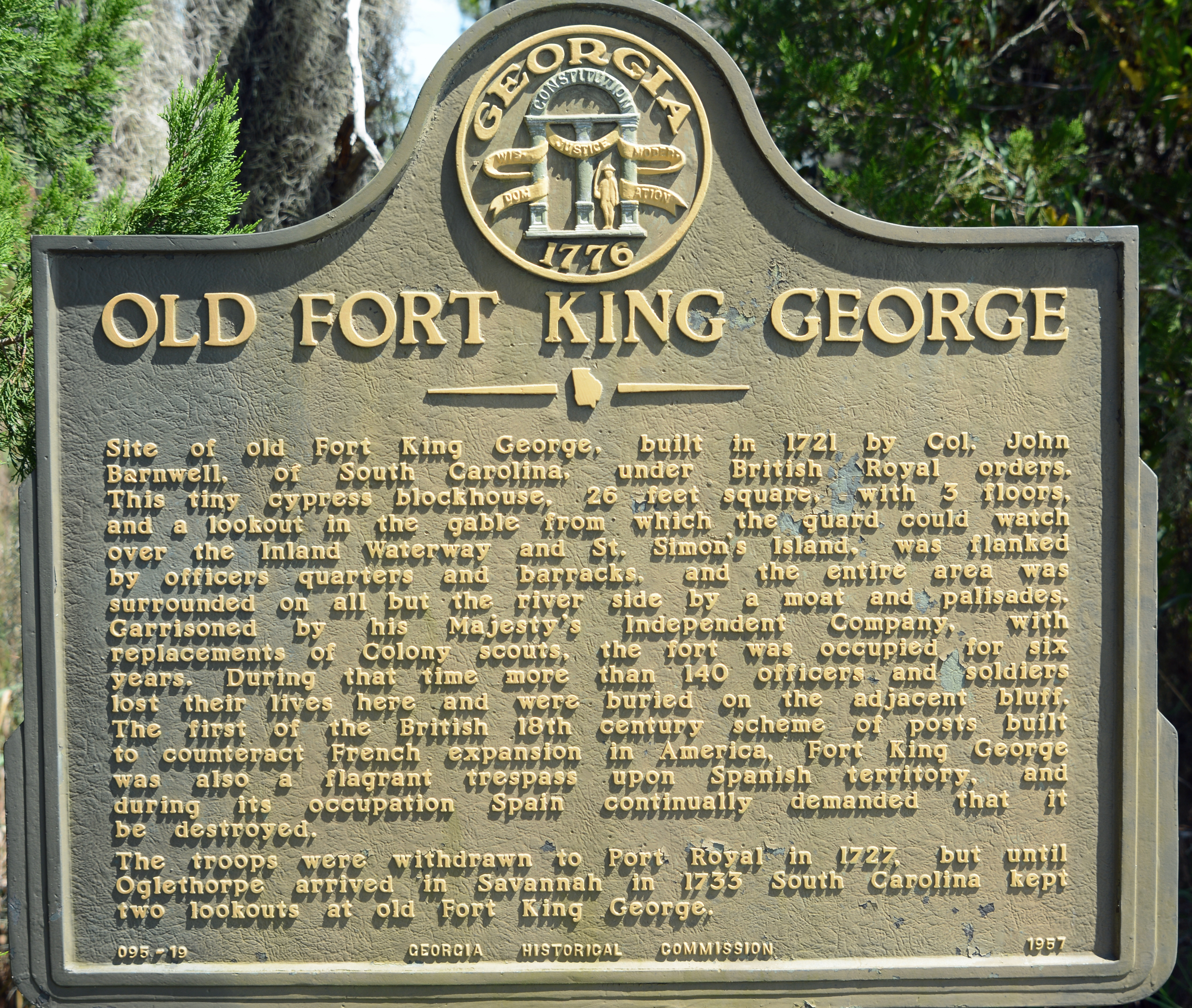 Fort King George historical marker at the site, in McIntosh County, Georgia, US